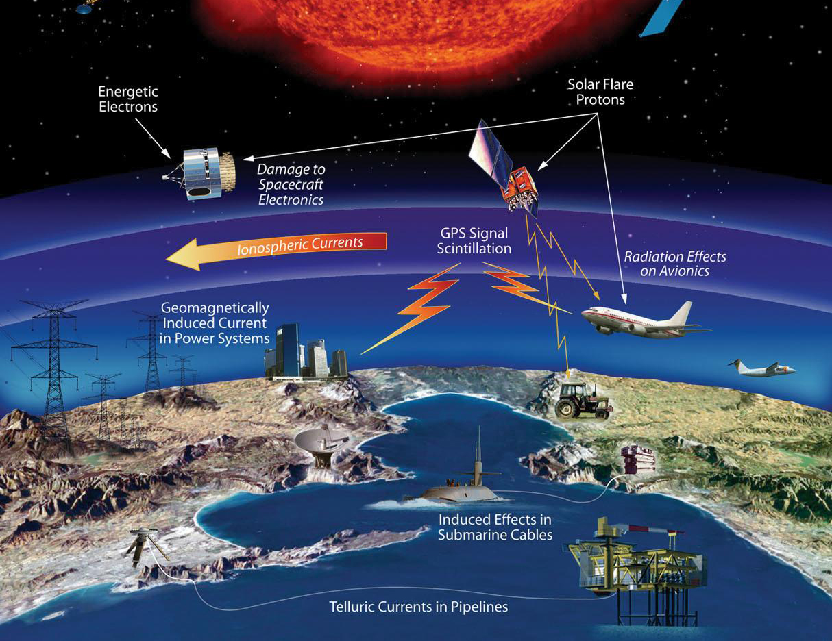 what is affected by solar storms by NASA